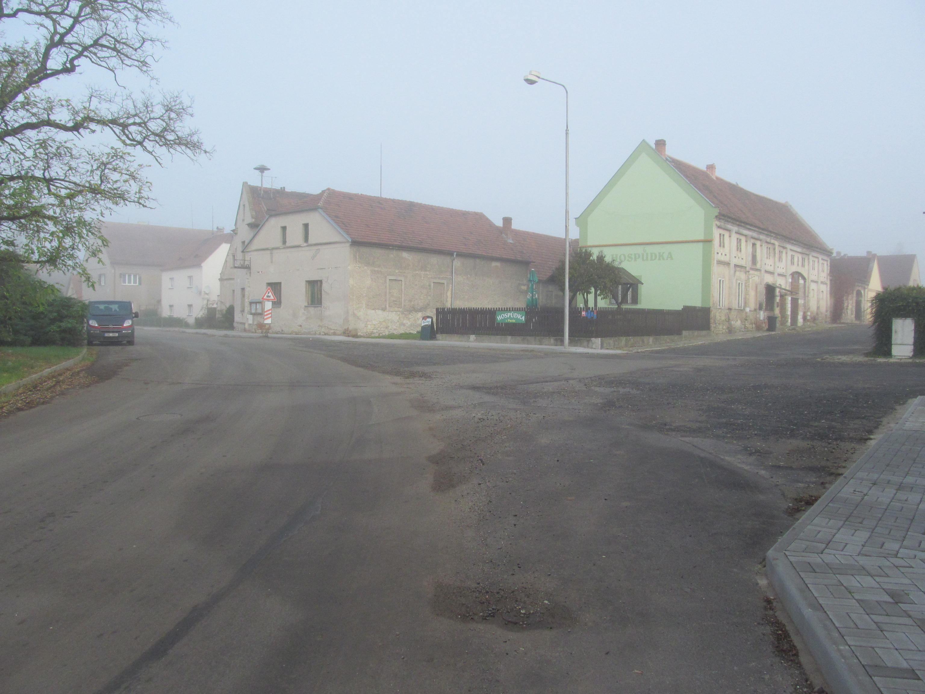 Village square in Tvršice